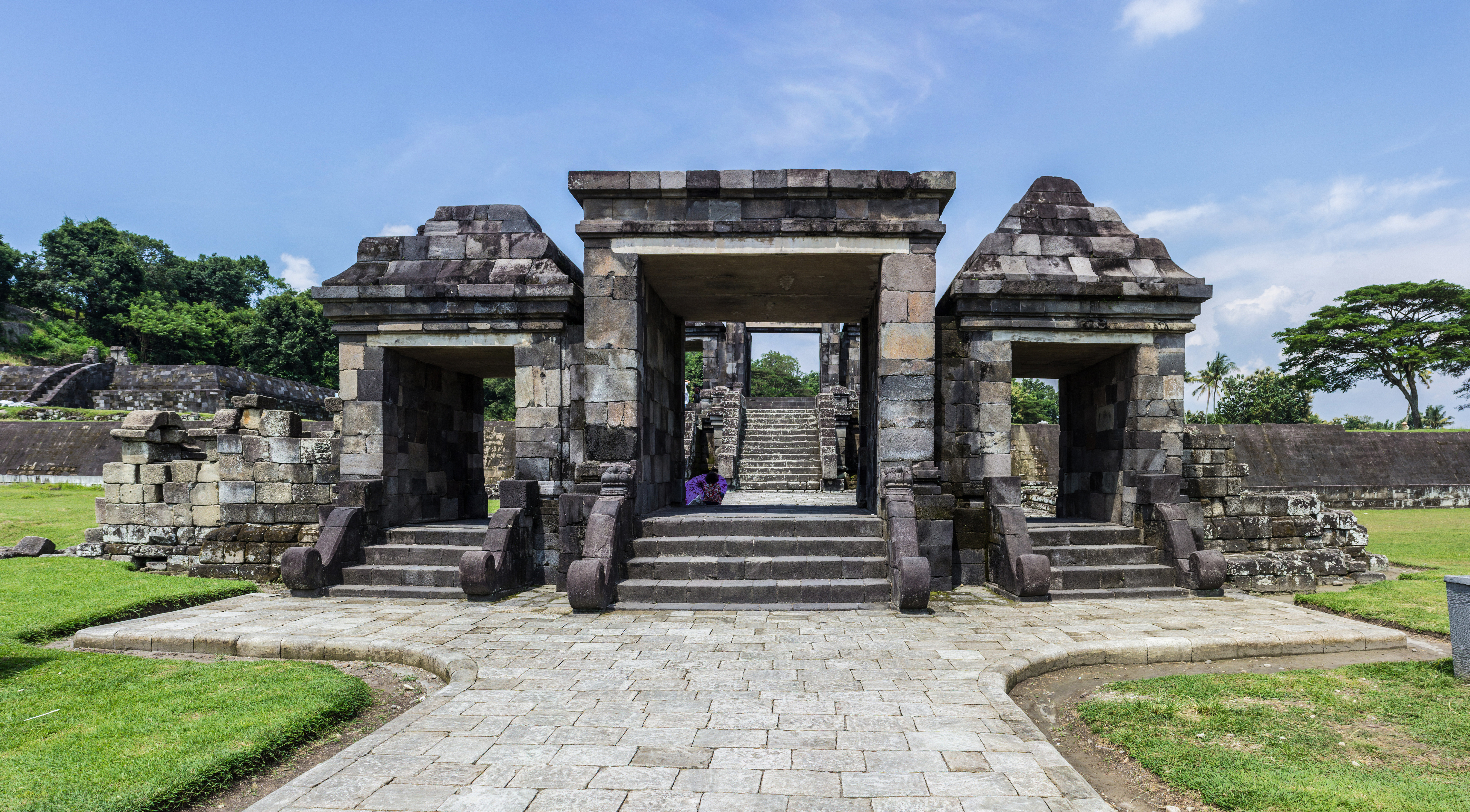 Ratu Boko front gate 2014-03-31